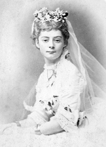 Ellis Rowan (c1847-1922)